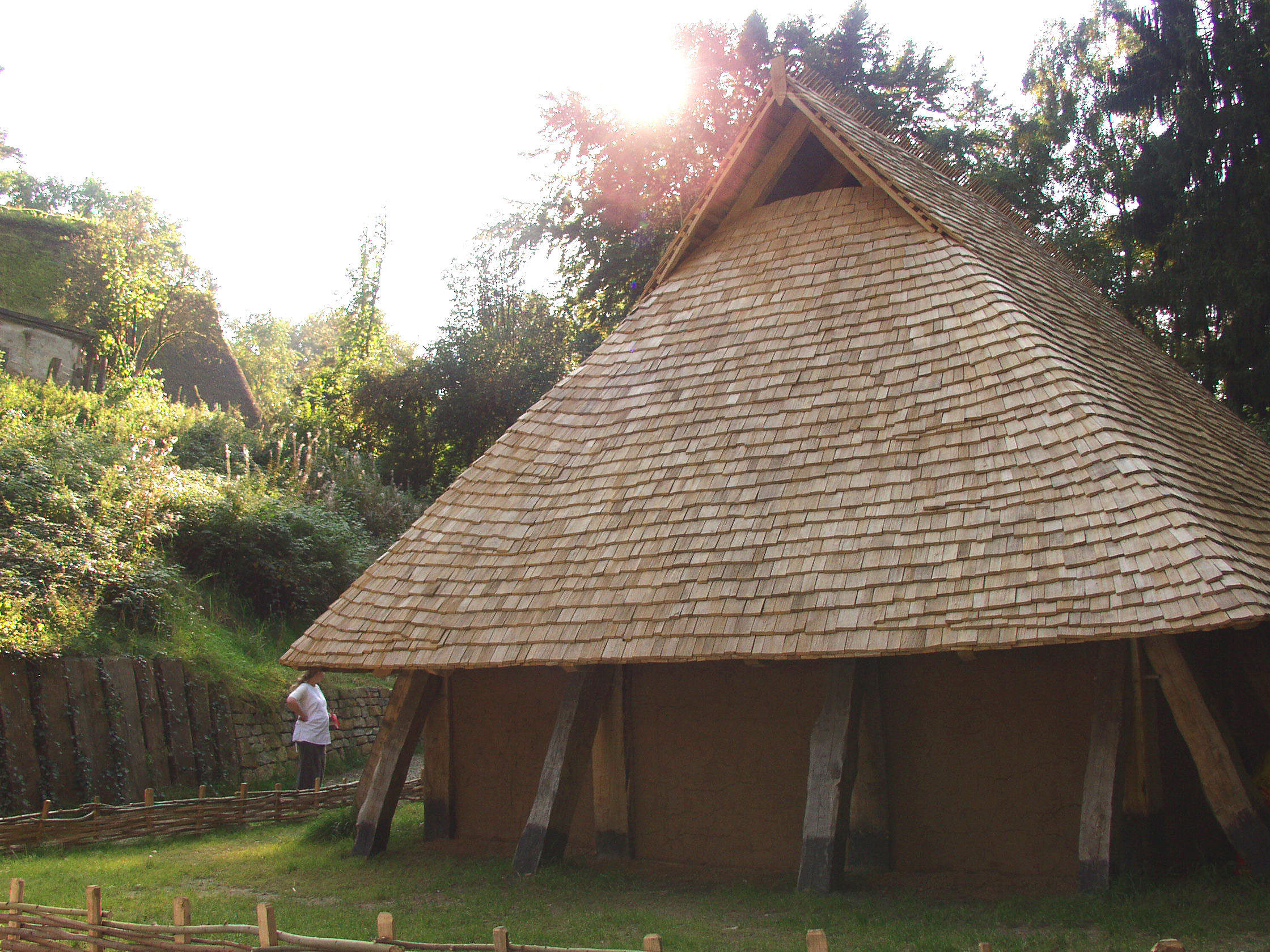 Reconstruction of an Saxon house of the Merovingian period at Archäologisches Freilichtmuseum Oerlinghausen, near Bielefeld, Germany